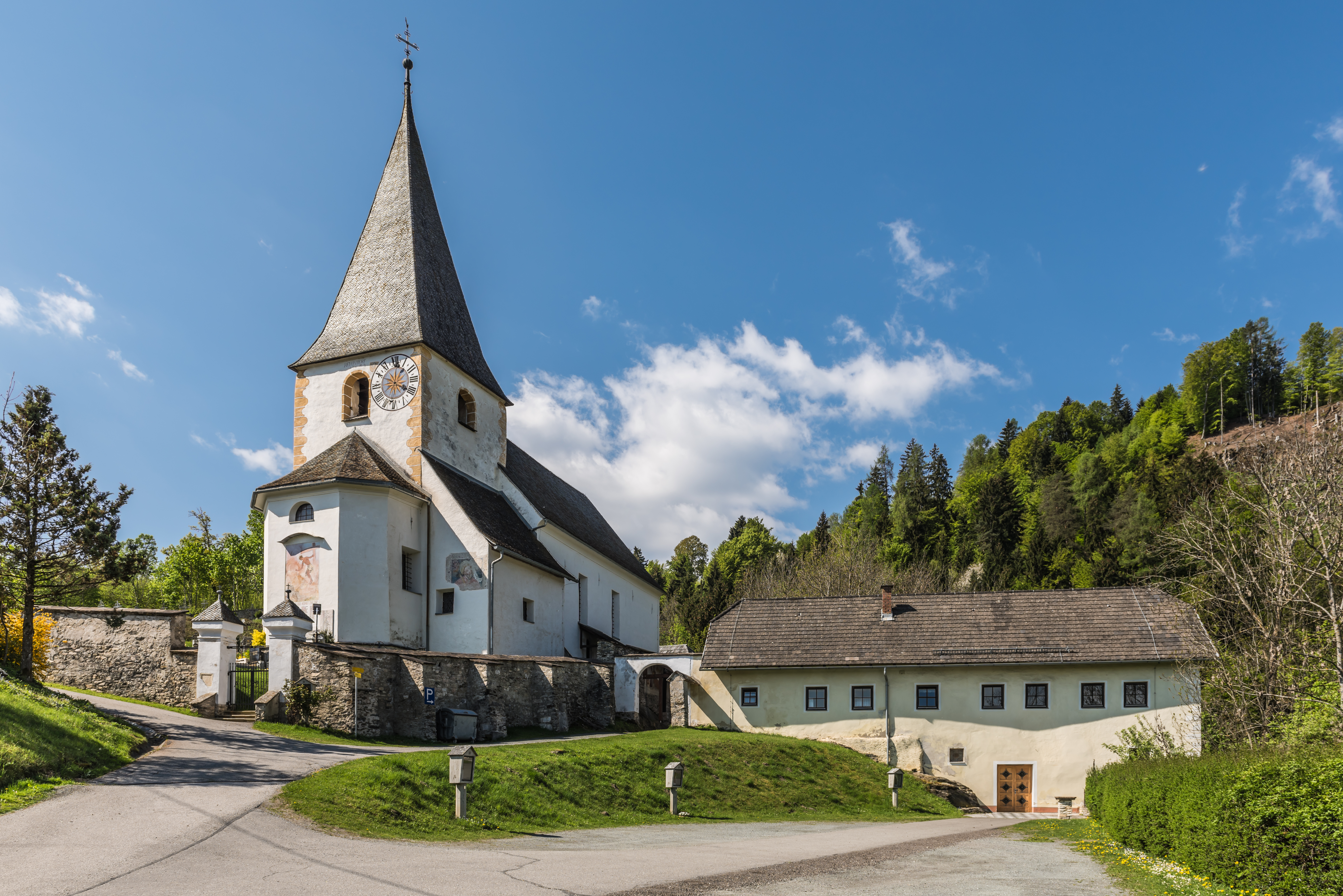 Fortified parish church Saint James the Greater and former rectory in Tiffen #29, municipality Steindorf am Ossiacher See, district Feldkirchen, Carinthia, Austria, EU